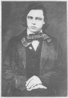 Persistent URL: Subject (TGM): Alumni and alumnae; Men; Portrait photographs; Book illustrations; Reproductions; Location: Oxford, Ohio Copy negatives of campus locations, people and events used to produce lantern slides for Dr. Alfred H. Upham. Joel Allan Battle, class of 1859. Killed at the Battle of Shiloh, April 7, 1862.